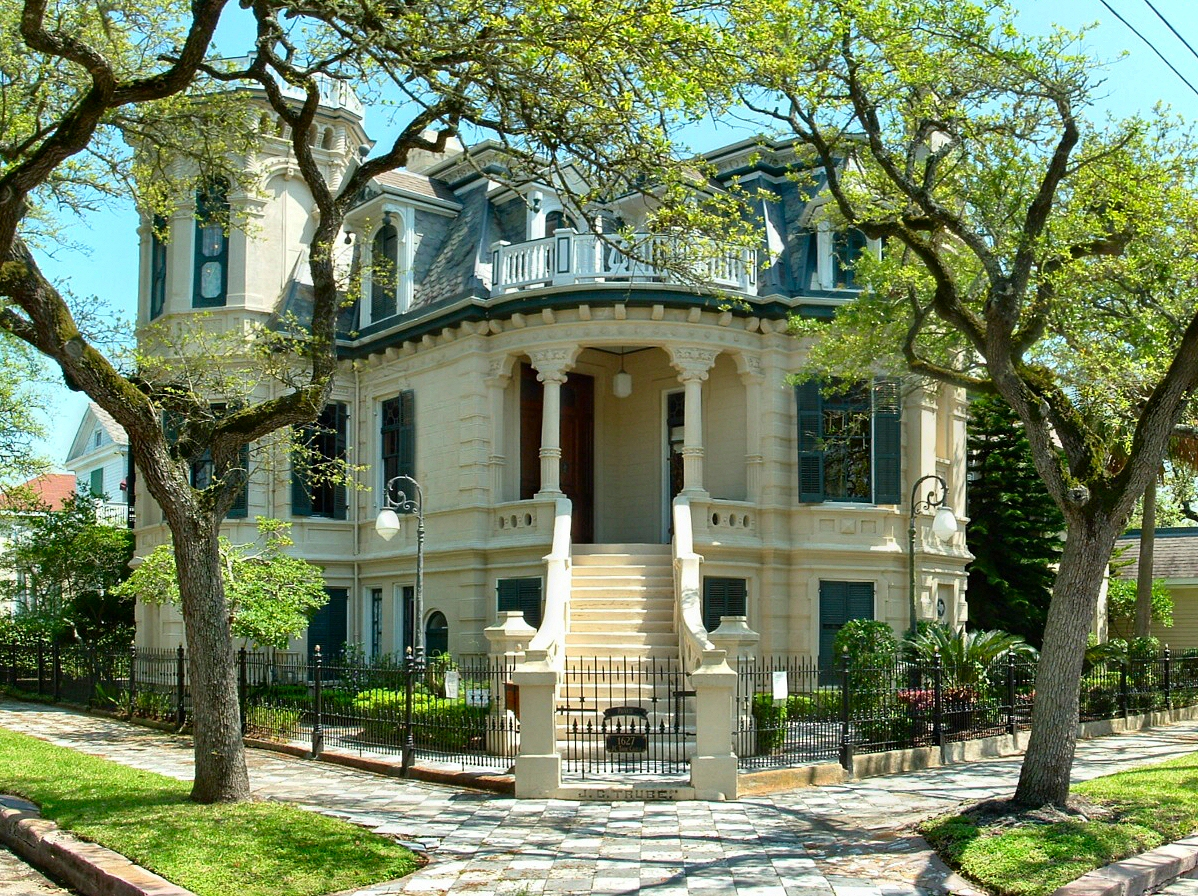 Trube Castle. Galveston, Texas. Photo by Nick Saum